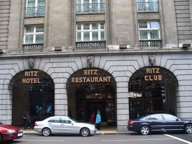 Glitzy Ritz The Ritz Hotel in Piccadilly signifies money. Opened in 1906, named after Cesar Ritz, and the place to be seen having tea. It was the first hotel in London to have every room with en-suite facilities.